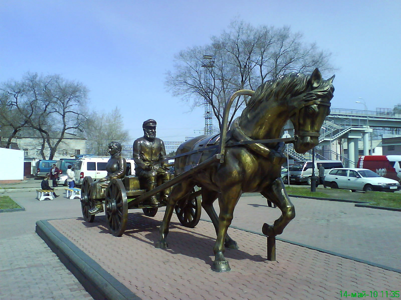 Statue of settlers on railway station Birobidzhan